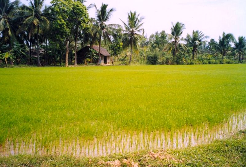 Countryside around Cái Mon, Mekong Delta, Vietnam. Cái Mơn , thuộc xã Vĩnh Thành, huyện Chợ Lách tỉnh Bến Tre